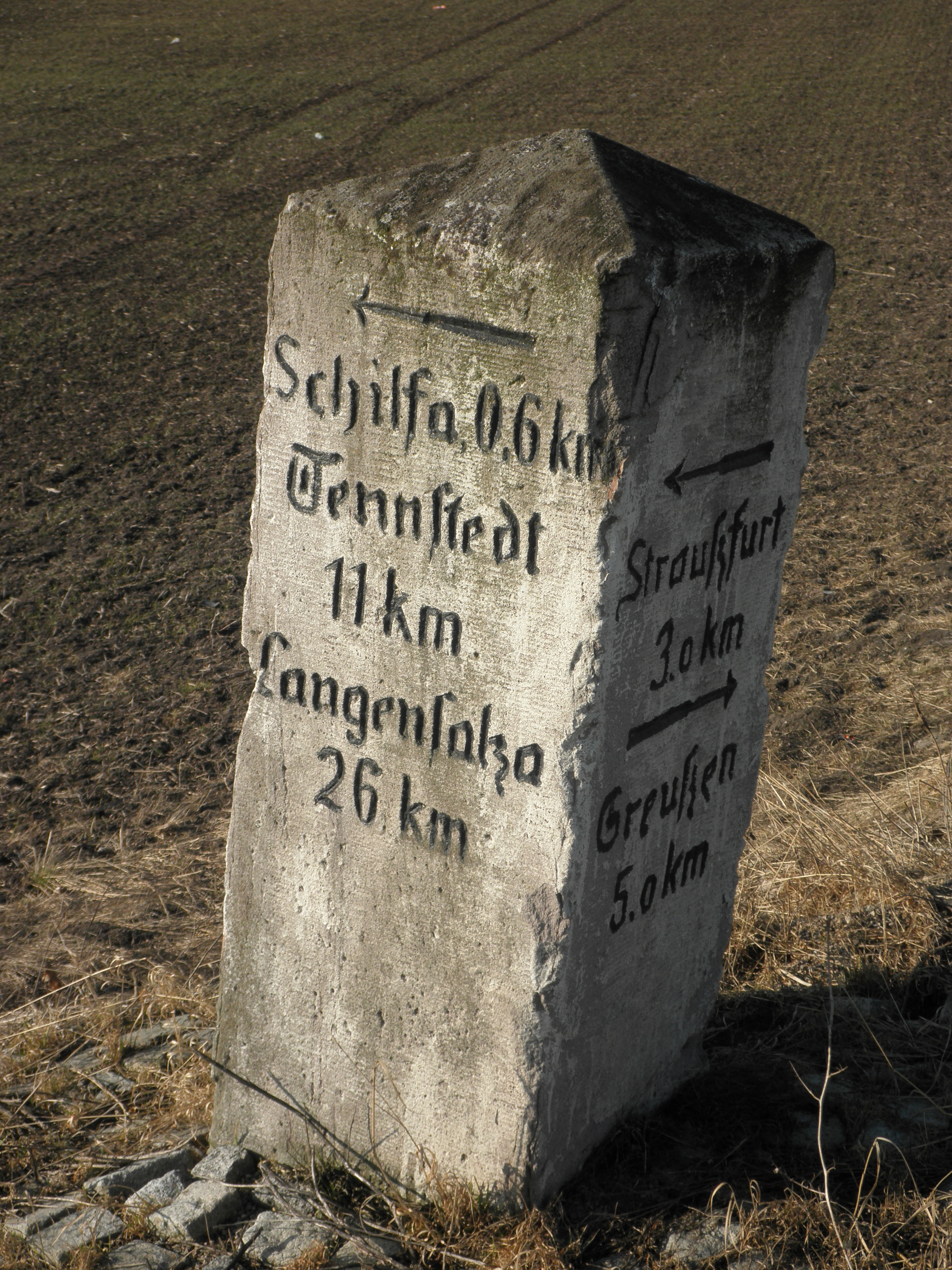 Sign Stone near Schilfa in Thuringia